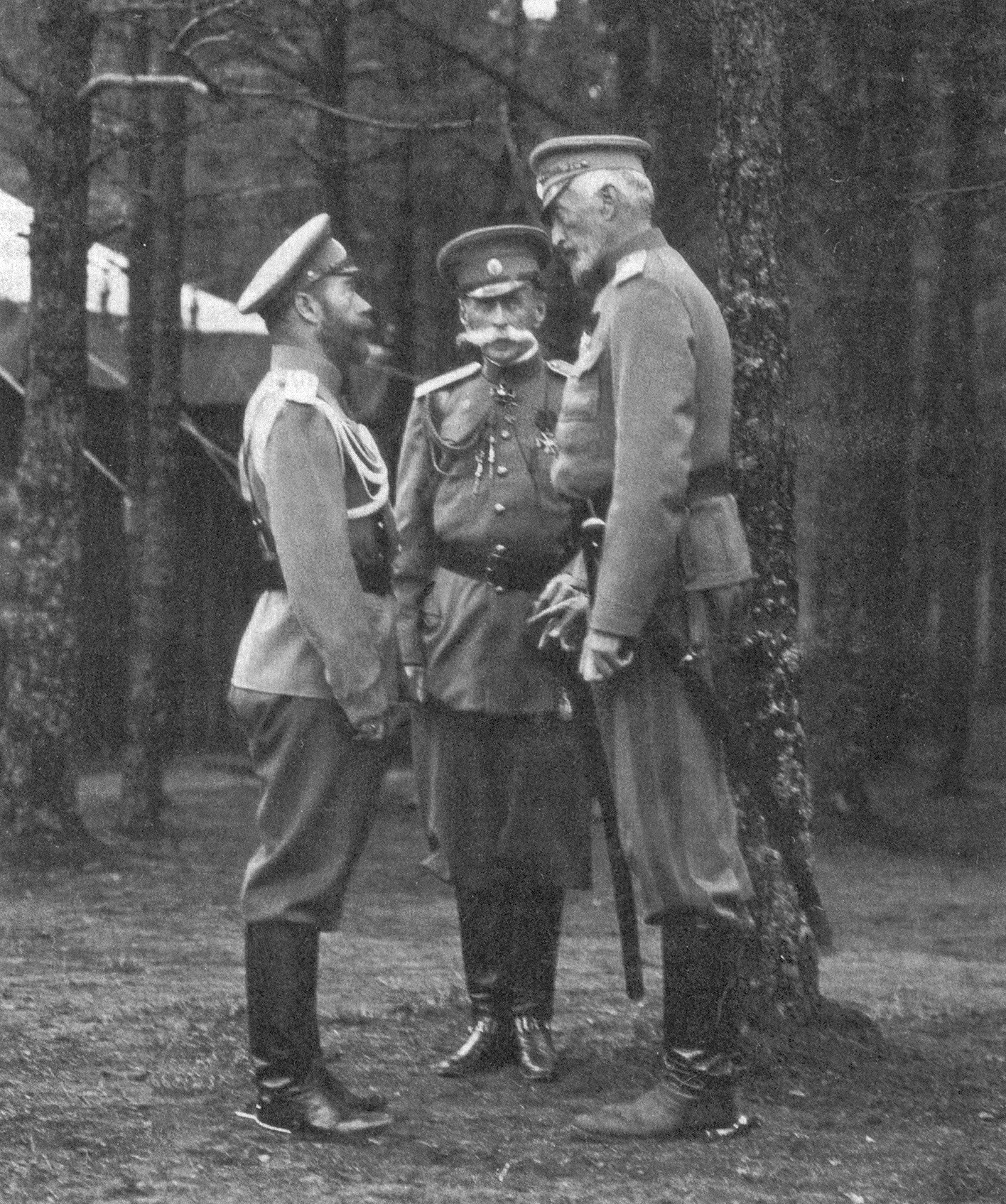 Emperor Nicholas II (left), Minister of the Court Count V. B. Fredericks (center) and Grand Duke Nicholas Nikolaievich (right) in the GHQ.